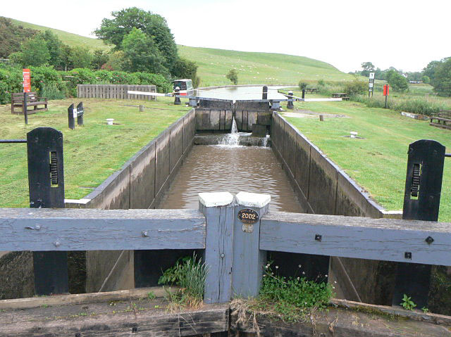 Beeston Iron Lock. Looking along the lock from the footbridge over the tail of the lock. The cast iron sides of the lock can be clearly seen. Craft are not allowed to use the lock side-by-side to avoid snagging and possibly damaging the panels.